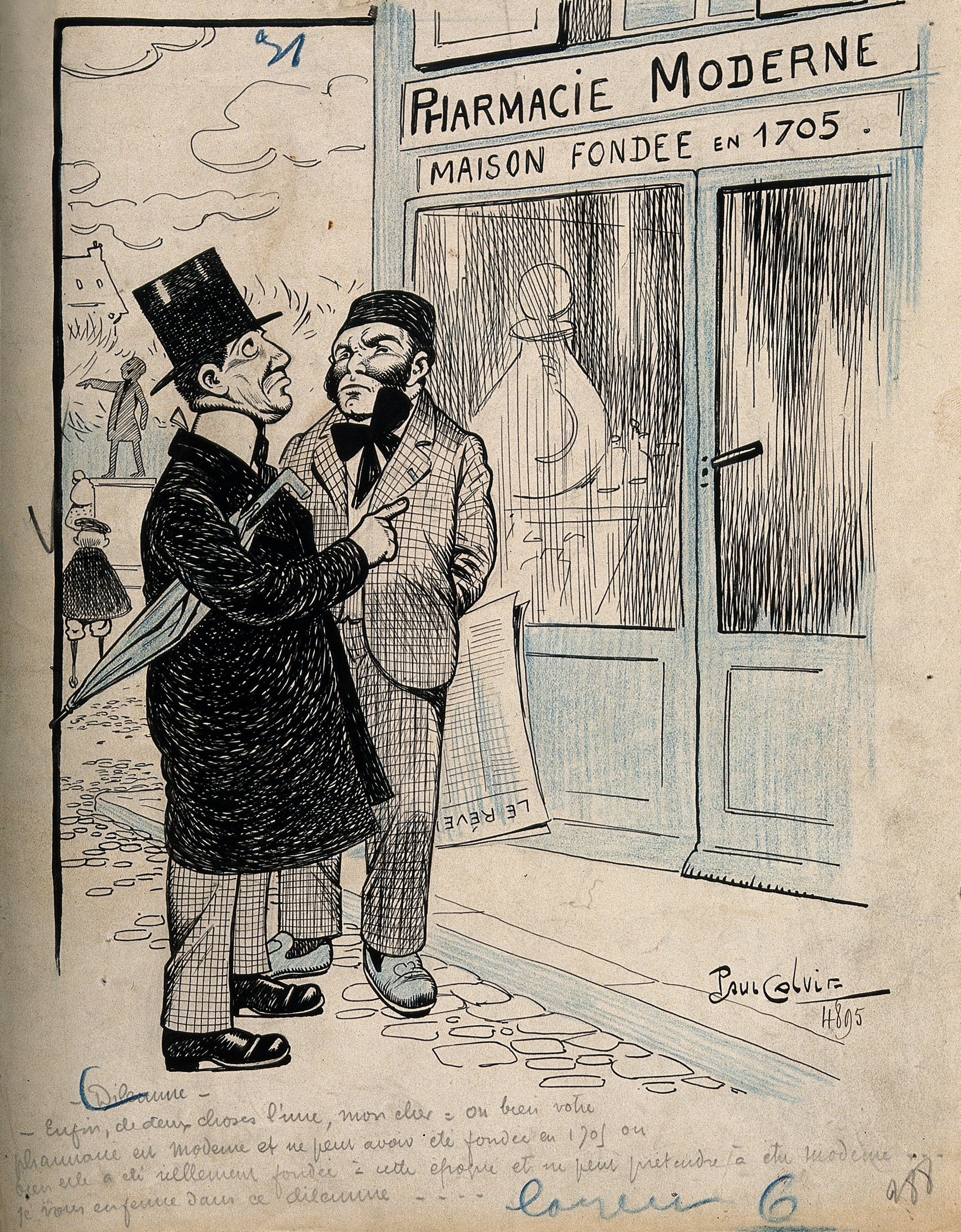 Two gentlemen opine that a 'Pharmacie Moderne' that opened in 1705 can no longer strictly be called modern. Coloured lithograph by P. Colvir, c. 1895. Iconographic Collections Keywords: Paul Colvir